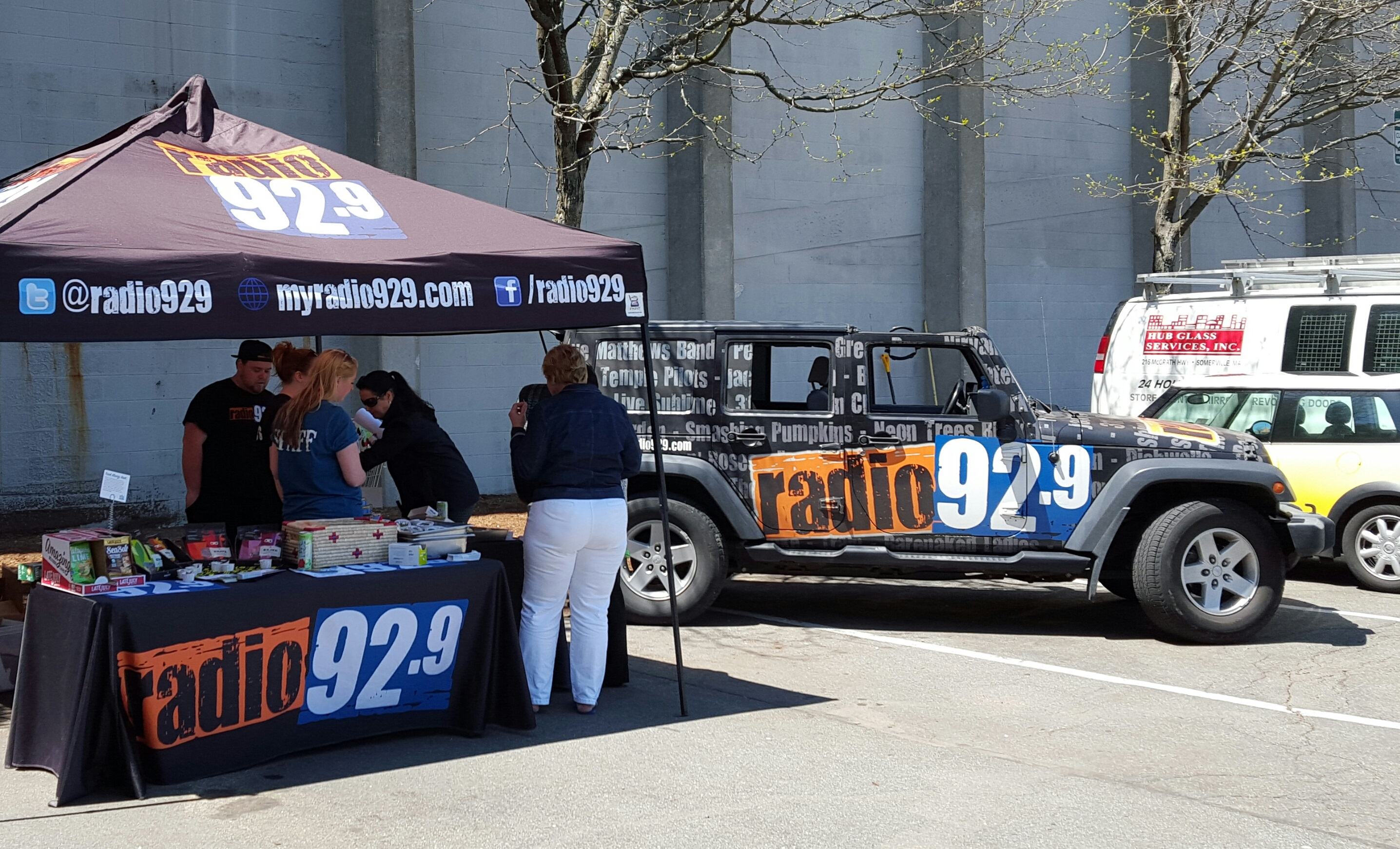 The Radio 92.9 in Cambridge, Massachusetts sampling products from Whole Foods Market. Other information Cropped from original